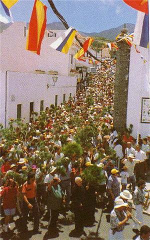 Rama de Juncalillo